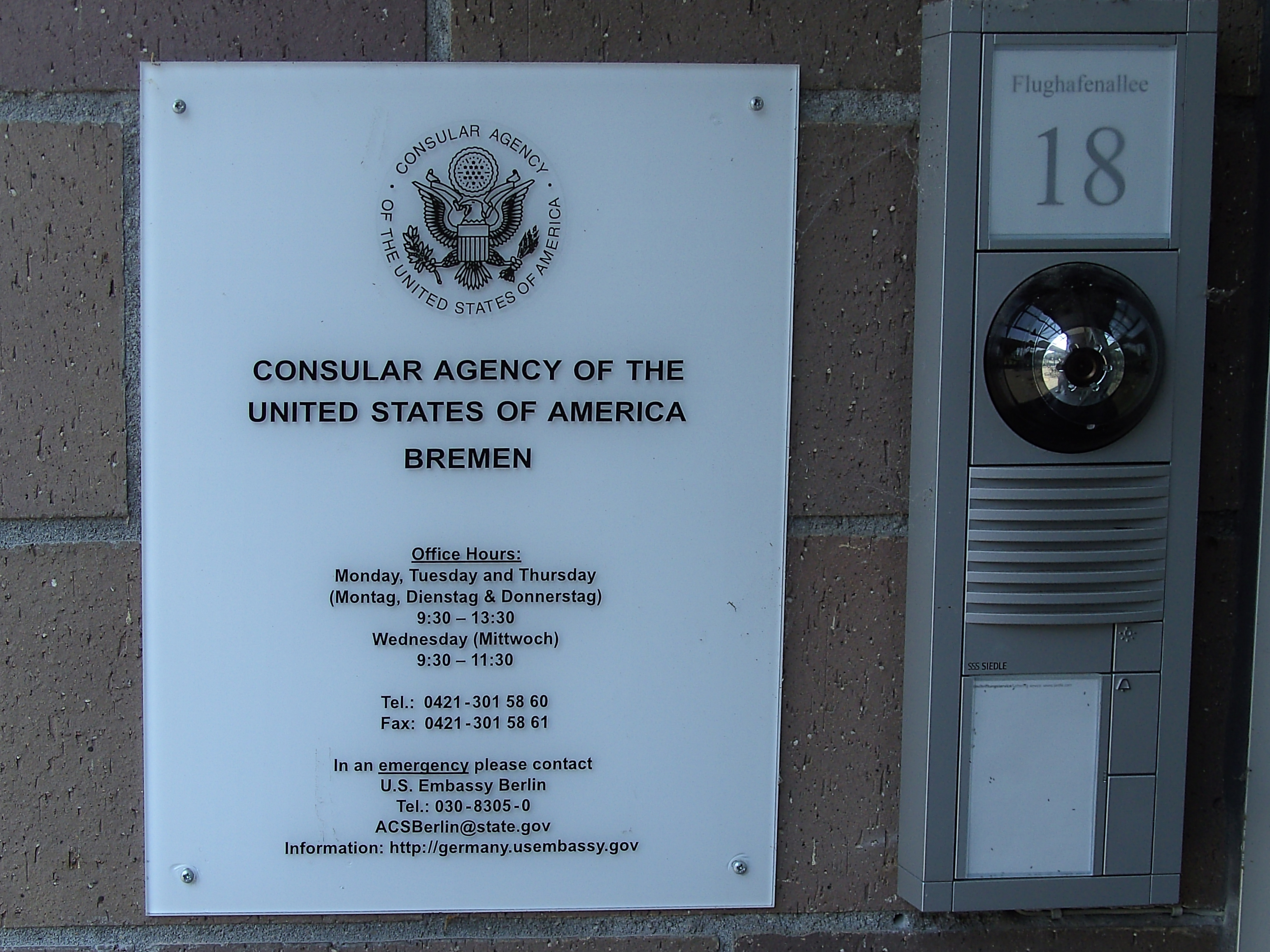 Emblem of US Consular agency in Bremen (Germany), Flughafenallee 18